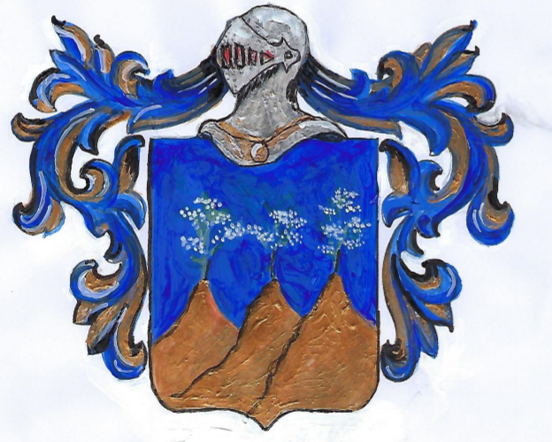 Coat of Arms , Cimini di Messina, According to Galuppi Originating from Orivieto (Possibly Rieti)